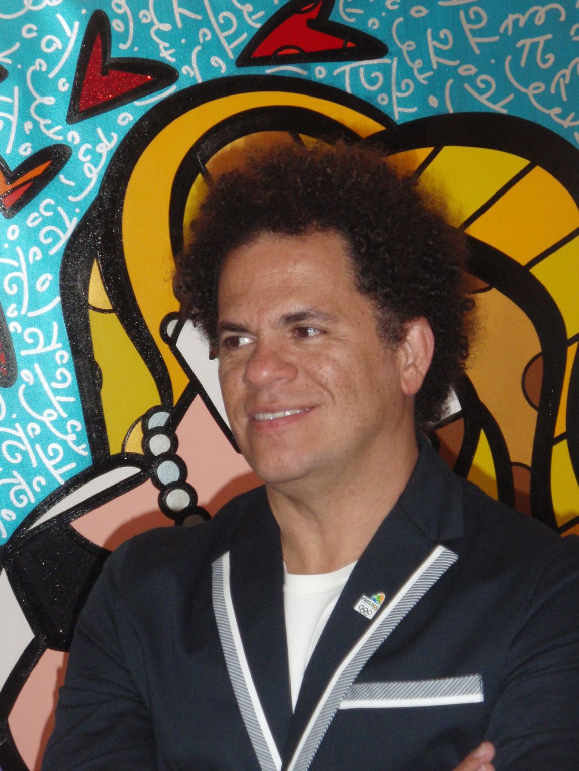 Romero Britto, Brazilian neo-pop-artist. Picture was taken in hamburg. date: april 17th 2009. His on vernissage.